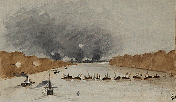 "The advance of the Gunboats up the river to New Berne, N. Carolina. Passing the Barricade", 03/14/1862 War Department. (1789 - 09/18/1947) ( Most Recent)